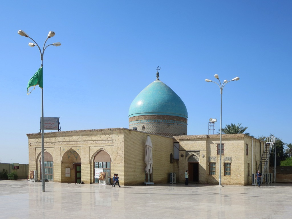 Al-Ezer Mosque